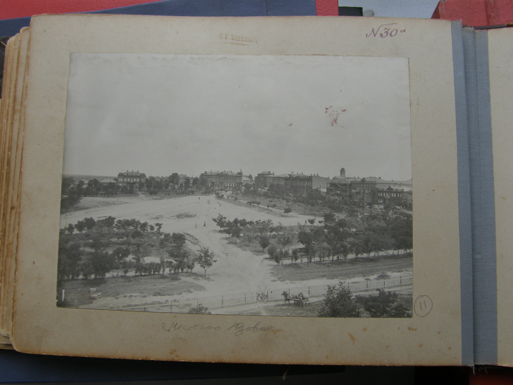 Photo from the Museum of History of Donetsk metallurgical plant